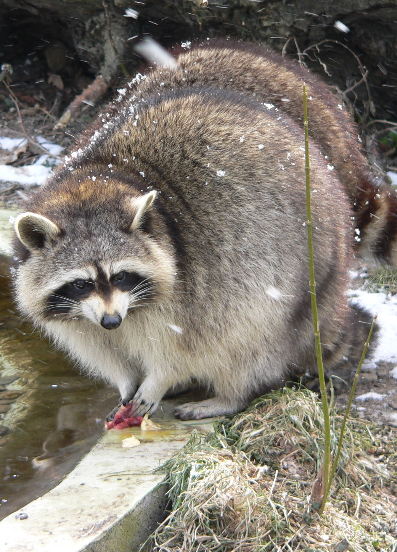 A Raccoon at Cologne Zoo